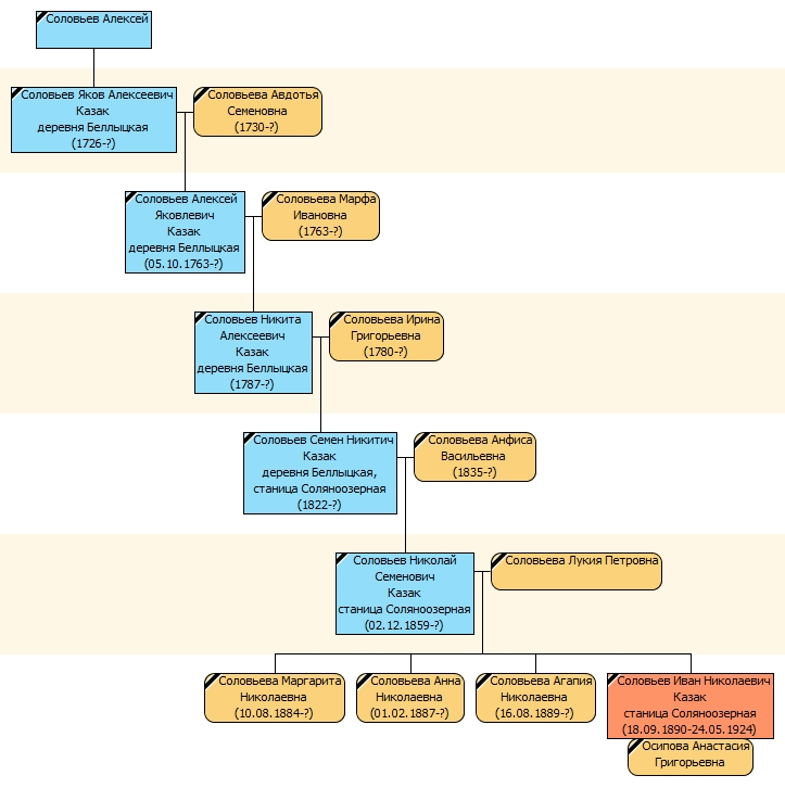 drevo